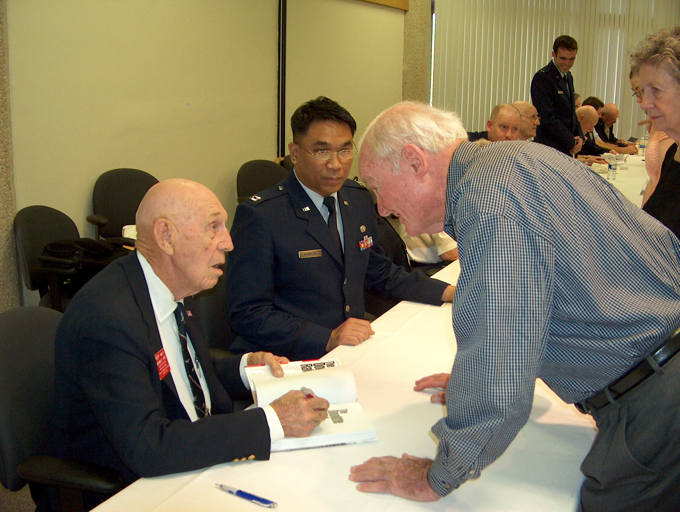 WWII Army vet George A. McCalpin, cousin of Raider Sgt. William Dieter, speaking with Lt. Col. Richard E. Cole (seated) at the 66th anniversary event at the University of Texas at Dallas in April 2008.